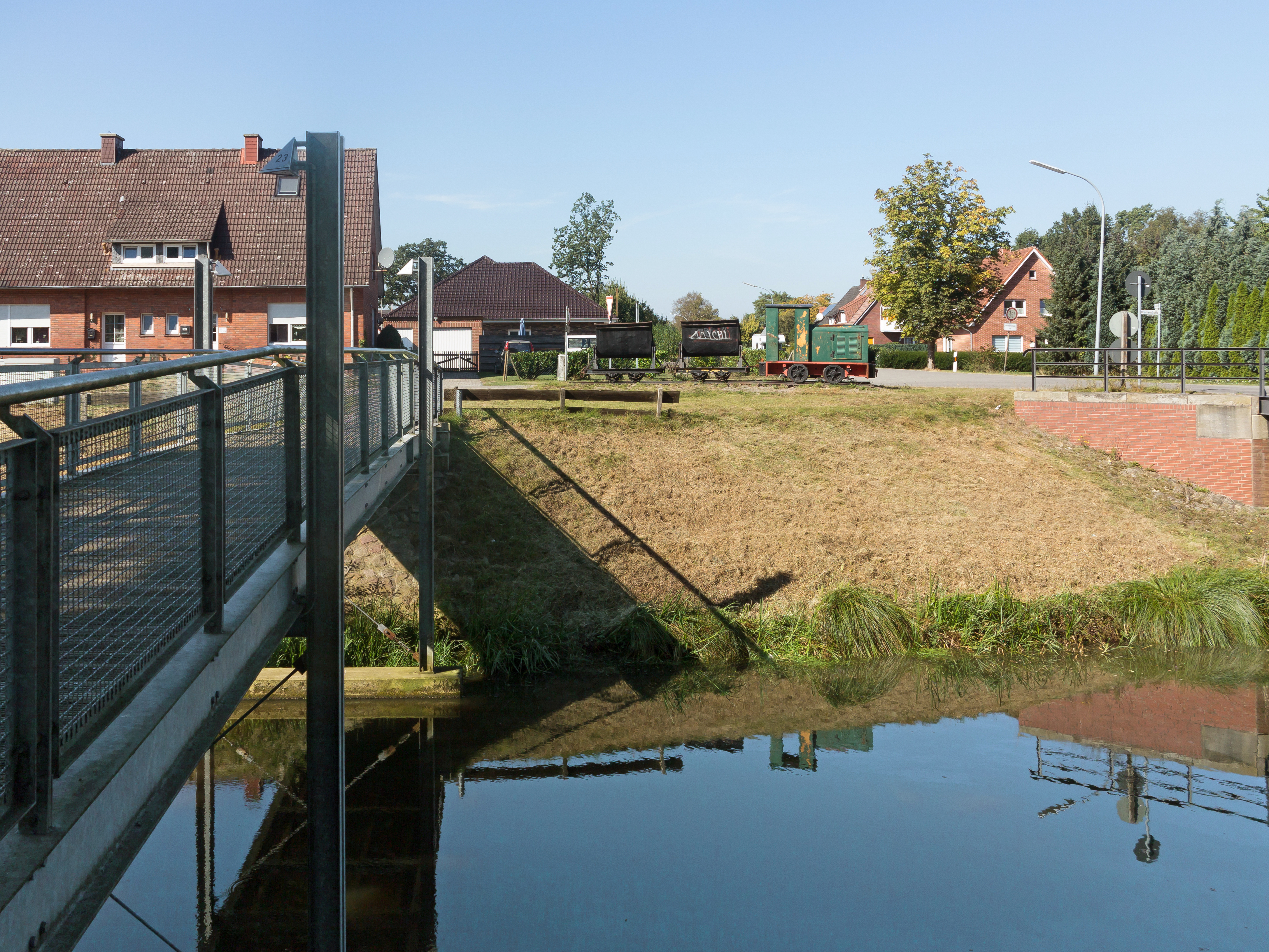 Adorf, foot bridge across das Süd-Nord Kanal